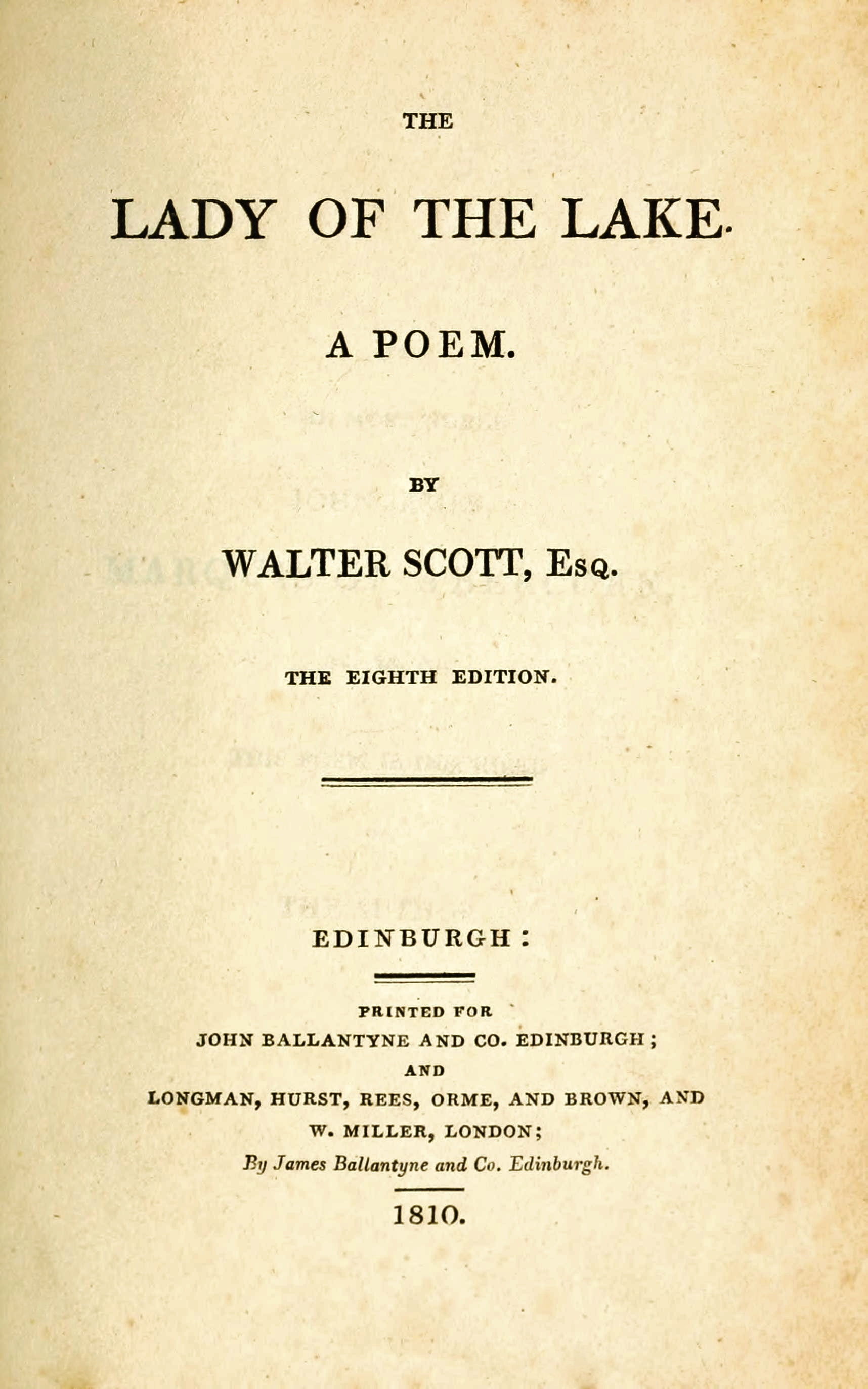 1810 title page (8th edition)